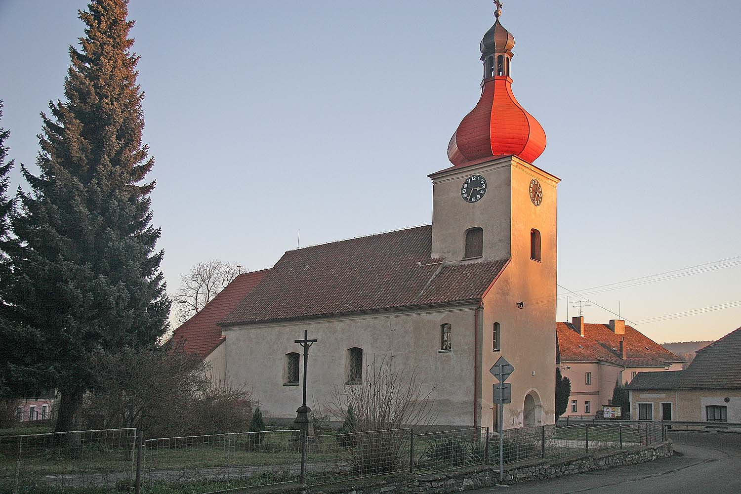 Church of the Annunciation in Bohdaneč, Kutná Hora District